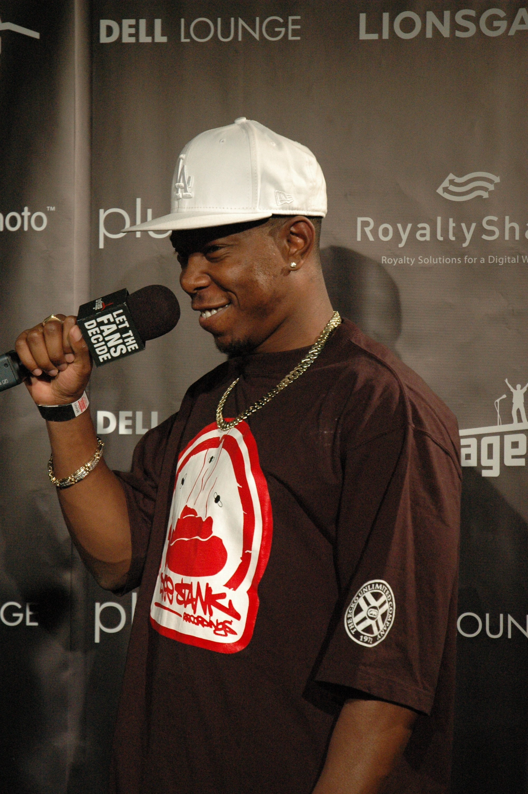 Dizzee Rascal attending the 2008 PLUG Independent Music Awards.